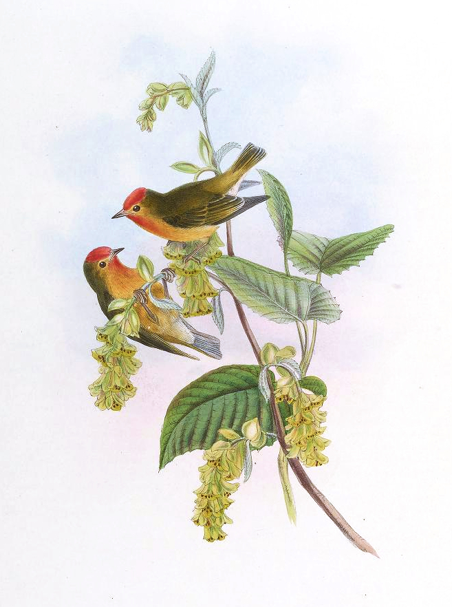 Aegithalus flammiceps = Cephalopyrus flammiceps[1]